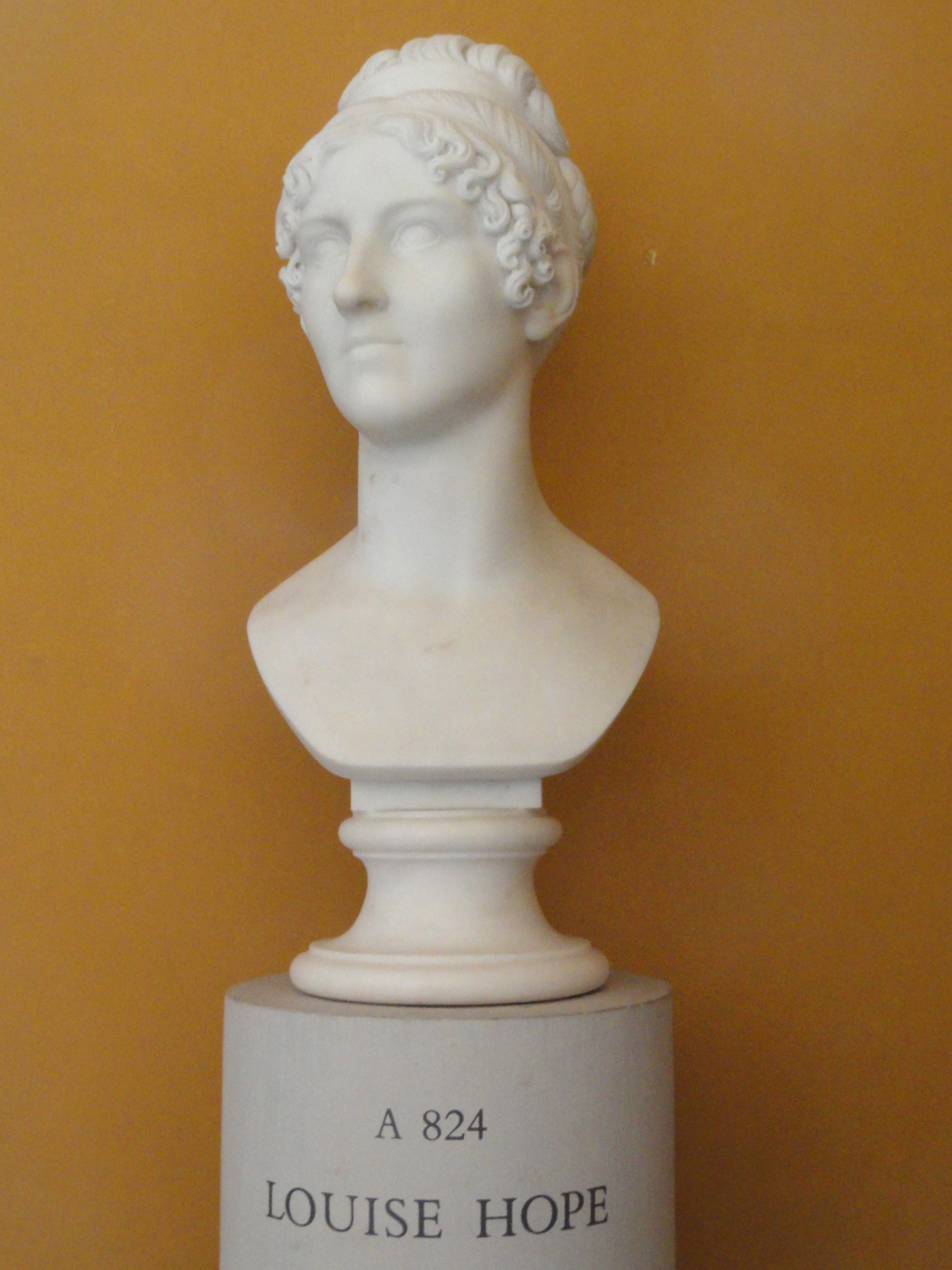 Sculpture in Thorvaldsens Museum, Copenhagen, Denmark. Sculptor: Bertel Thorvaldsen (c. 1770-1844). This artwork is now in the public domain because the artist died more than 70 years ago.